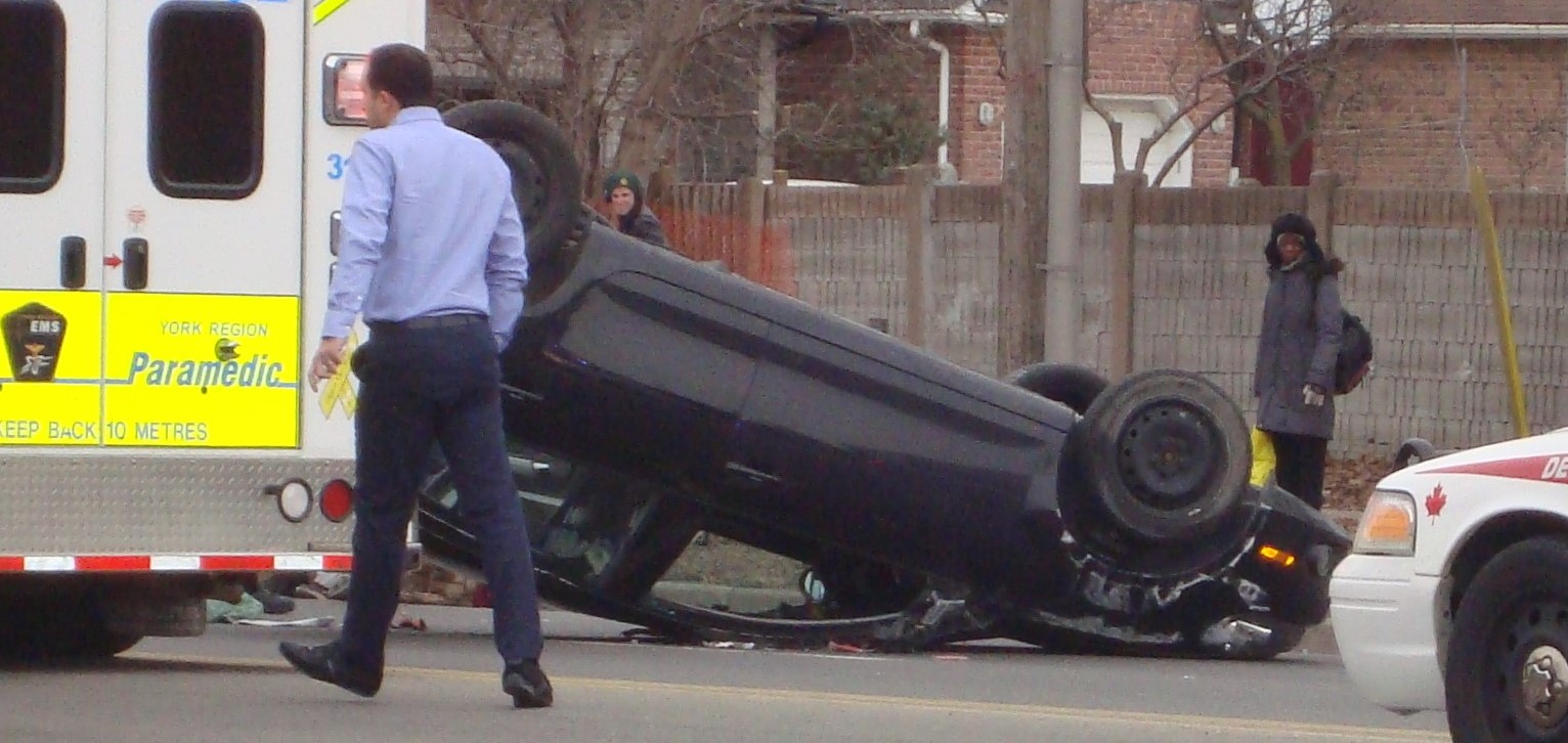 vehicle rollover in vaughan, ontario